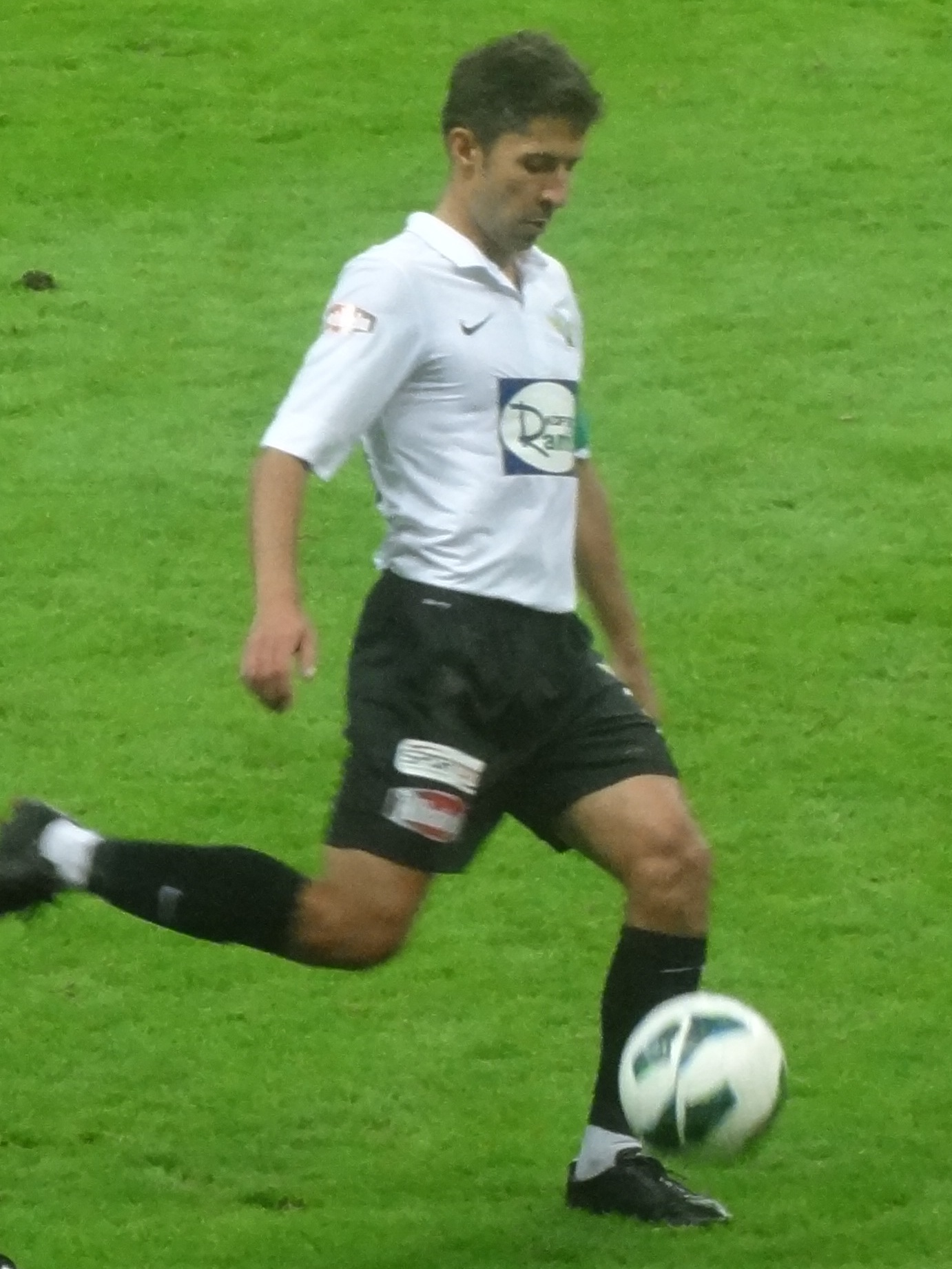 Akhisar vs Gs